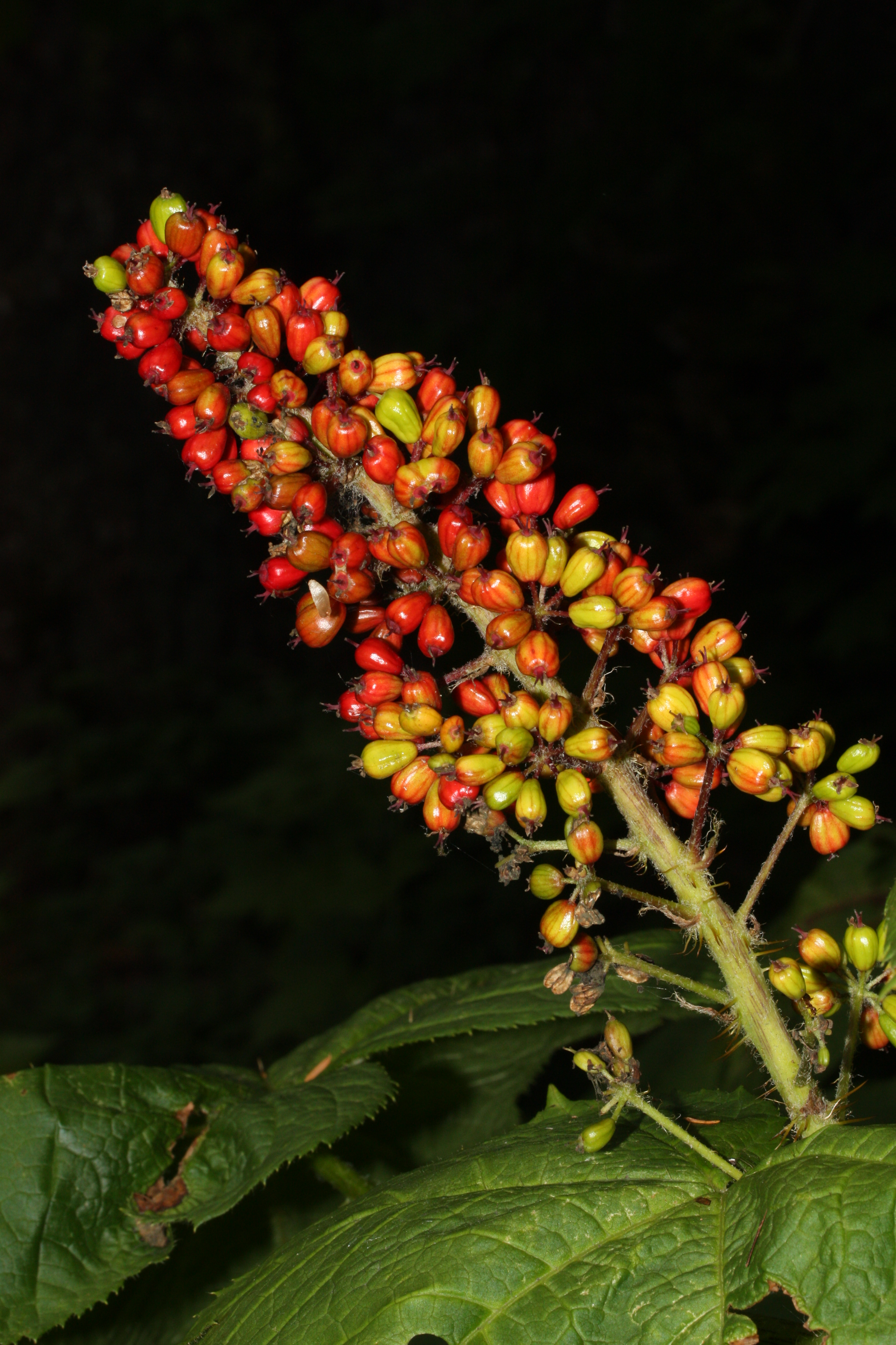 Devil's Club